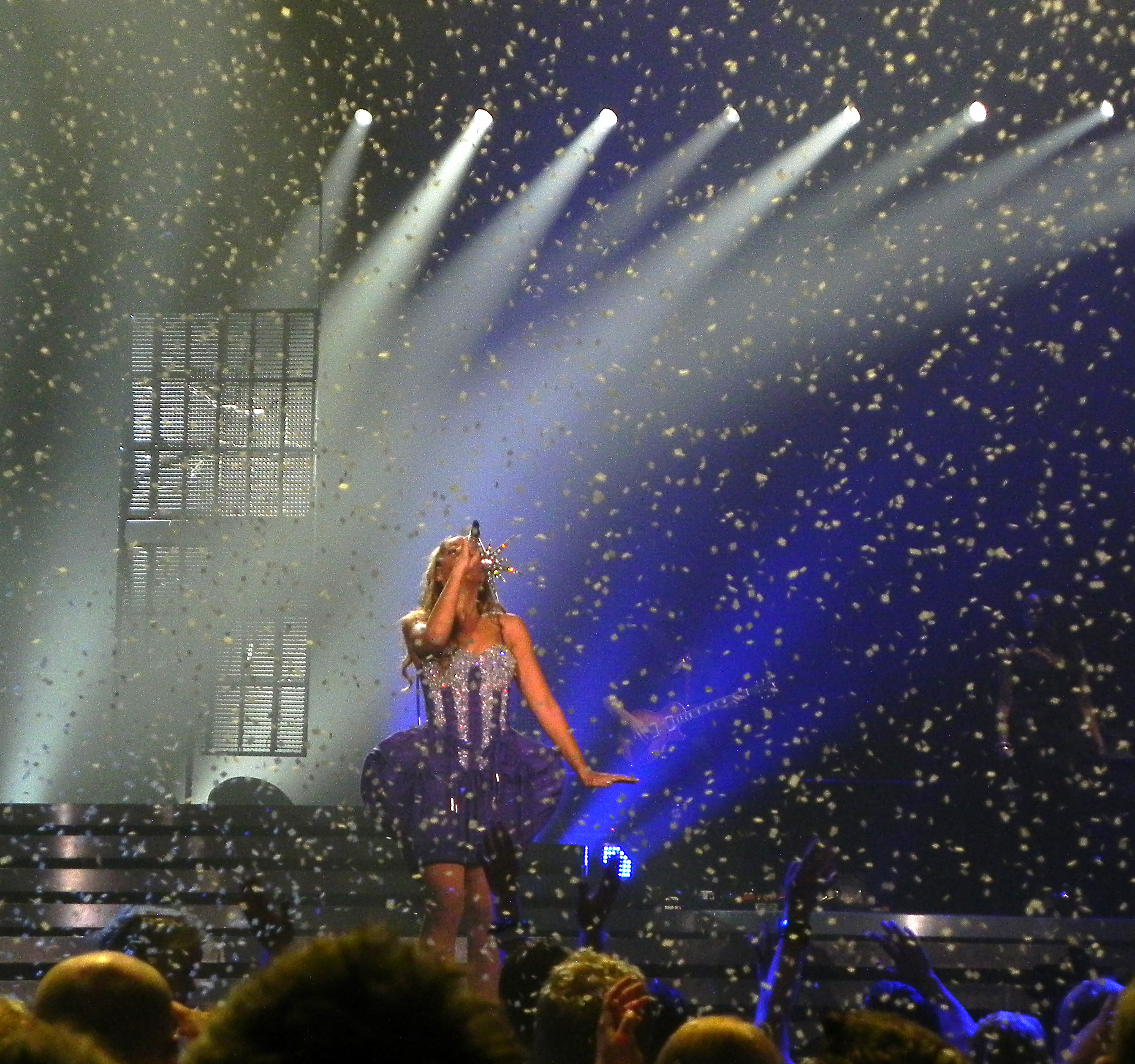 Leona Lewis during her tour "The Labyrinth"